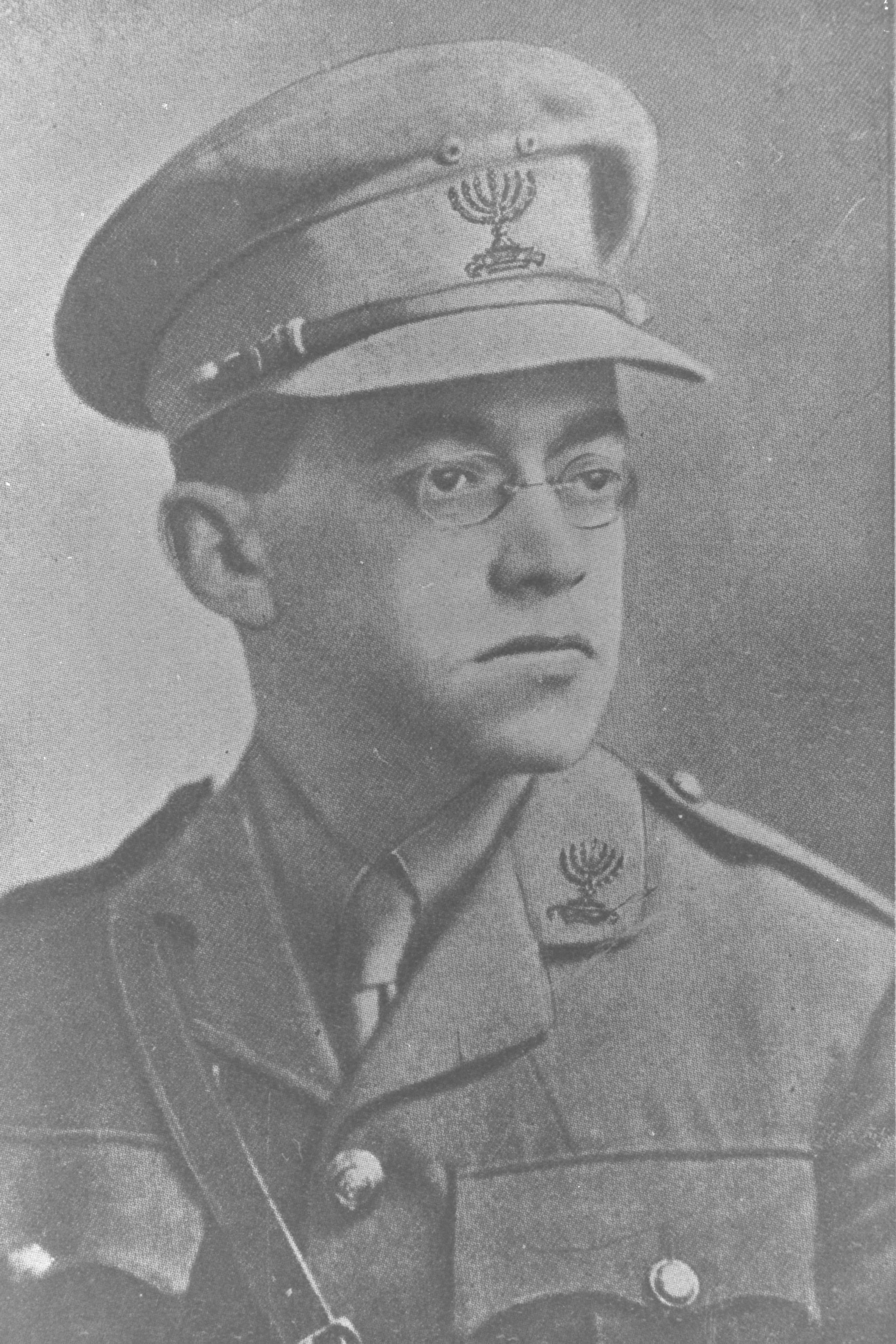 VLADIMIR JABOTINSKY WEARING UNIFORM OF THE JUDEAN BATTALION KADIMA IN THE JEWISH LEGION OF THE BRITISH ROYAL FUSILIERS.